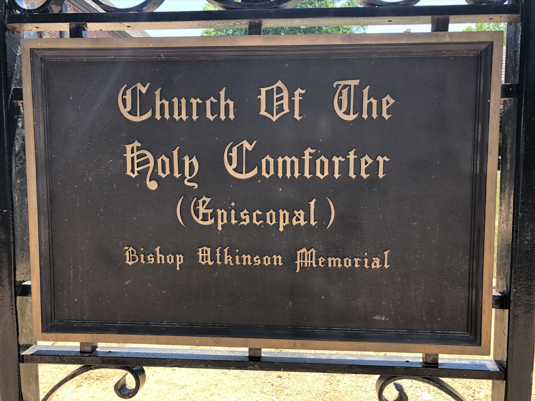 Memorial plaque for Bishop Thomas Atkinson in the Memorial Garden of the Church of the Holy Comforter in Charlotte, North Carolina.